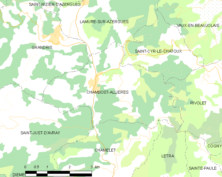 Map of French municipality